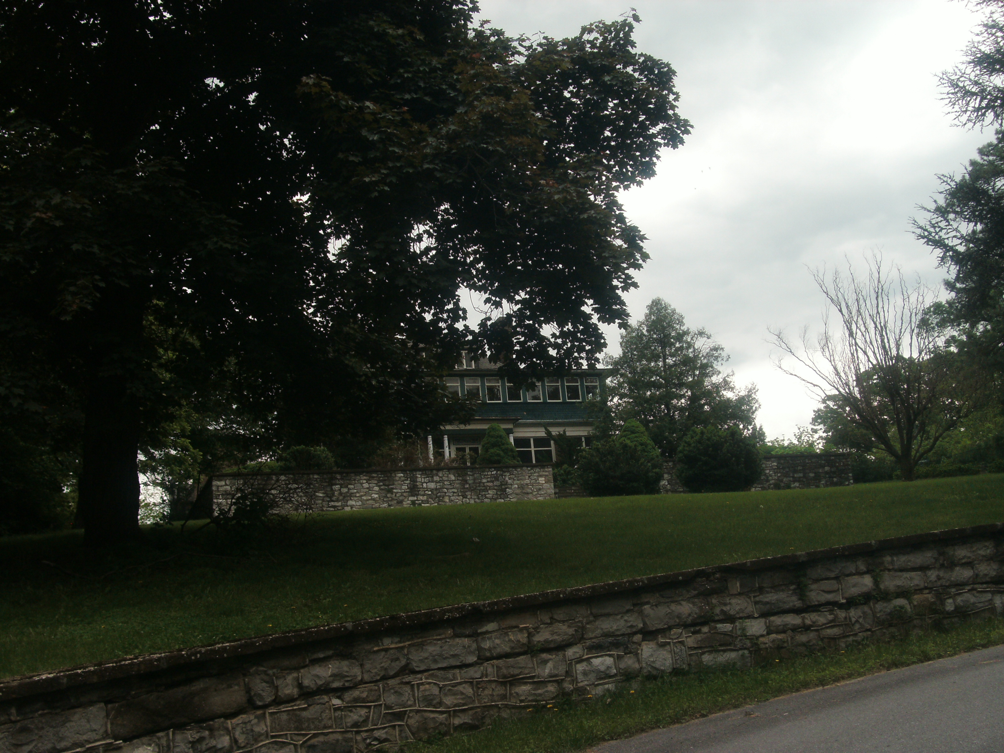 Killahevlin, Front Royal, Virginia; Taken by me in May, 2016 GEDSC DIGITAL CAMERA